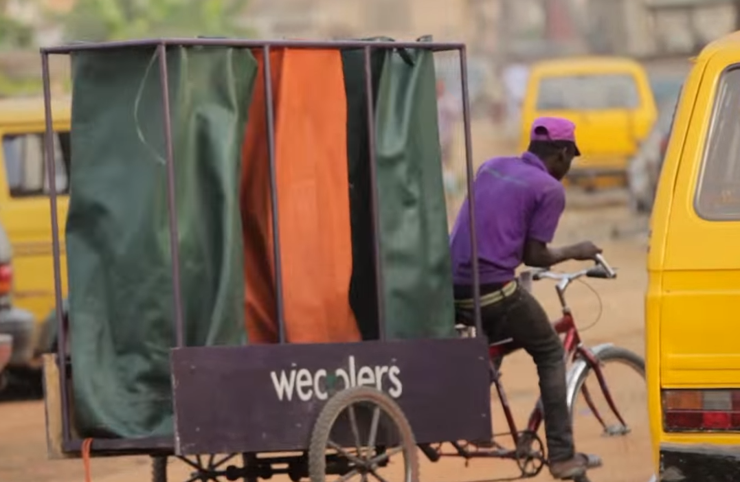 Bilikiss Adebiyi is the CEO of a Nigerian company which she co-founded. In collaboration with the city of Lagos they collect recycled rubbish, sort it, weigh it and then send back an SMS with points for the recycler. The company was founded in 2012 and is called Wecyclers